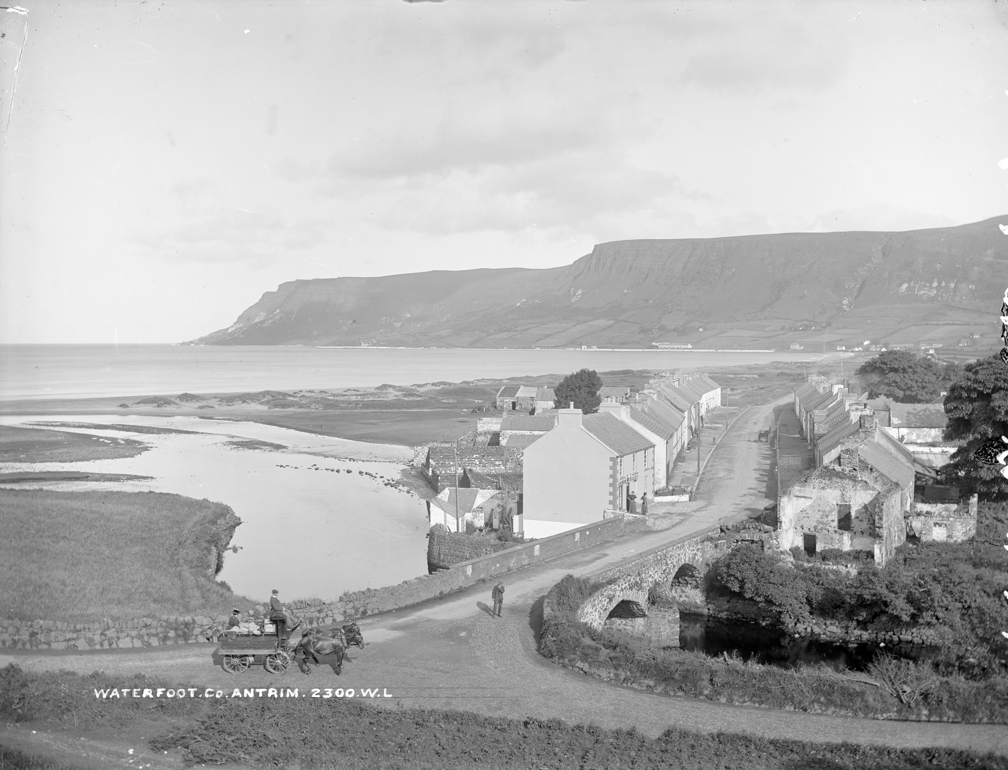 This photo was taken in the late 19th century, probably by Robert French, chief photographer of William Lawrence Photographic Studios of Dublin. You can compare this view with its companion photo next door taken approximately 100 years later as part of the Lawrence Photographic Project 1990/1991, where one thousand photographs from the Lawrence Collection in the National Library of Ireland were replicated a hundred years later by a team of volunteer photographers, thereby creating a record of the changing face of the selected locations all over Ireland. For further information on the Lawrence Photographic Project, read all about it on our NLI Blog. Our thanks to beachcomberaustralia for an image of Waterfoot produced using Google Earth. Date: Circa 1890 NLI Ref.: L_ROY_02300